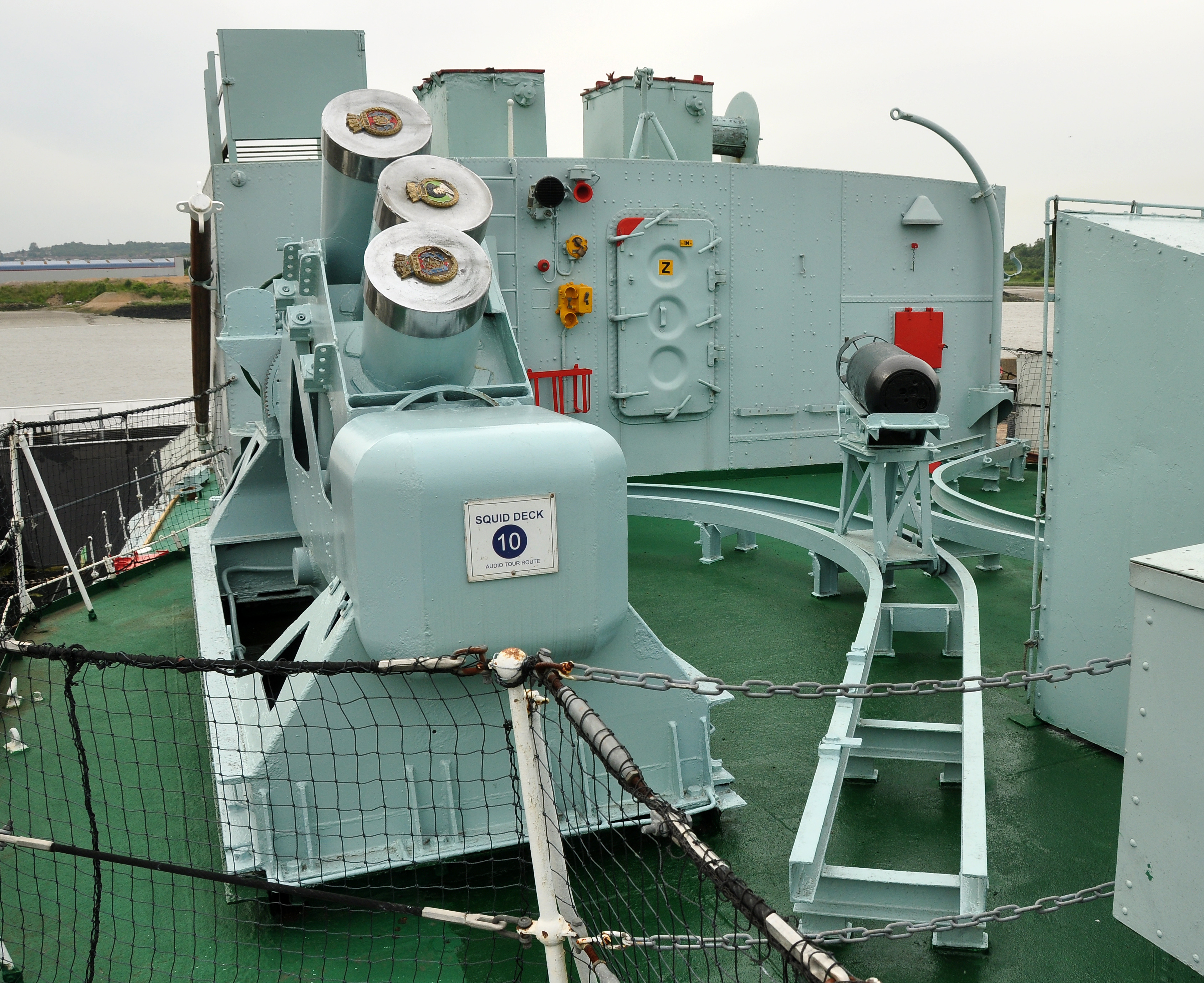 The squid deck of HMS Cavalier, moored at Chatham Dockyard, Kent.